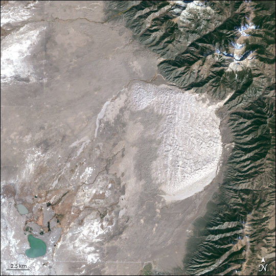 Satellite image of the Great Sand Dunes National Park and Preserve, Colorado, USA.